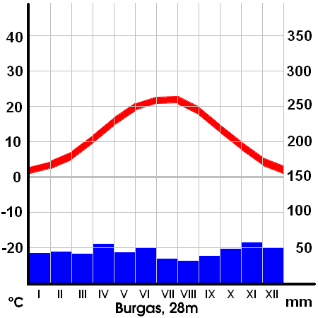 Climograph of Burgas